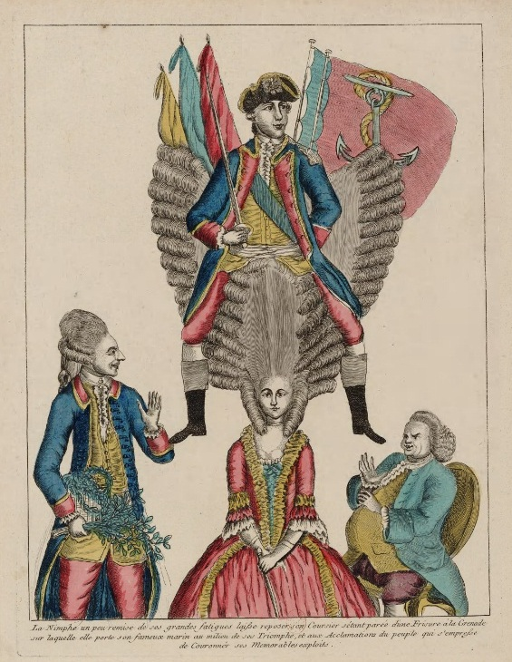 "The Nymph left standing rider. It s'estt adorned with a headdress which she wears her famous sailor (D'Estaing) in the midst of his triumphs, and the acclamations of the people who hastens to crown his memorable exploits". Print allegorical and propaganda carried out after taking the island of Grenada and the naval victory of d'Estaing in July 1779.